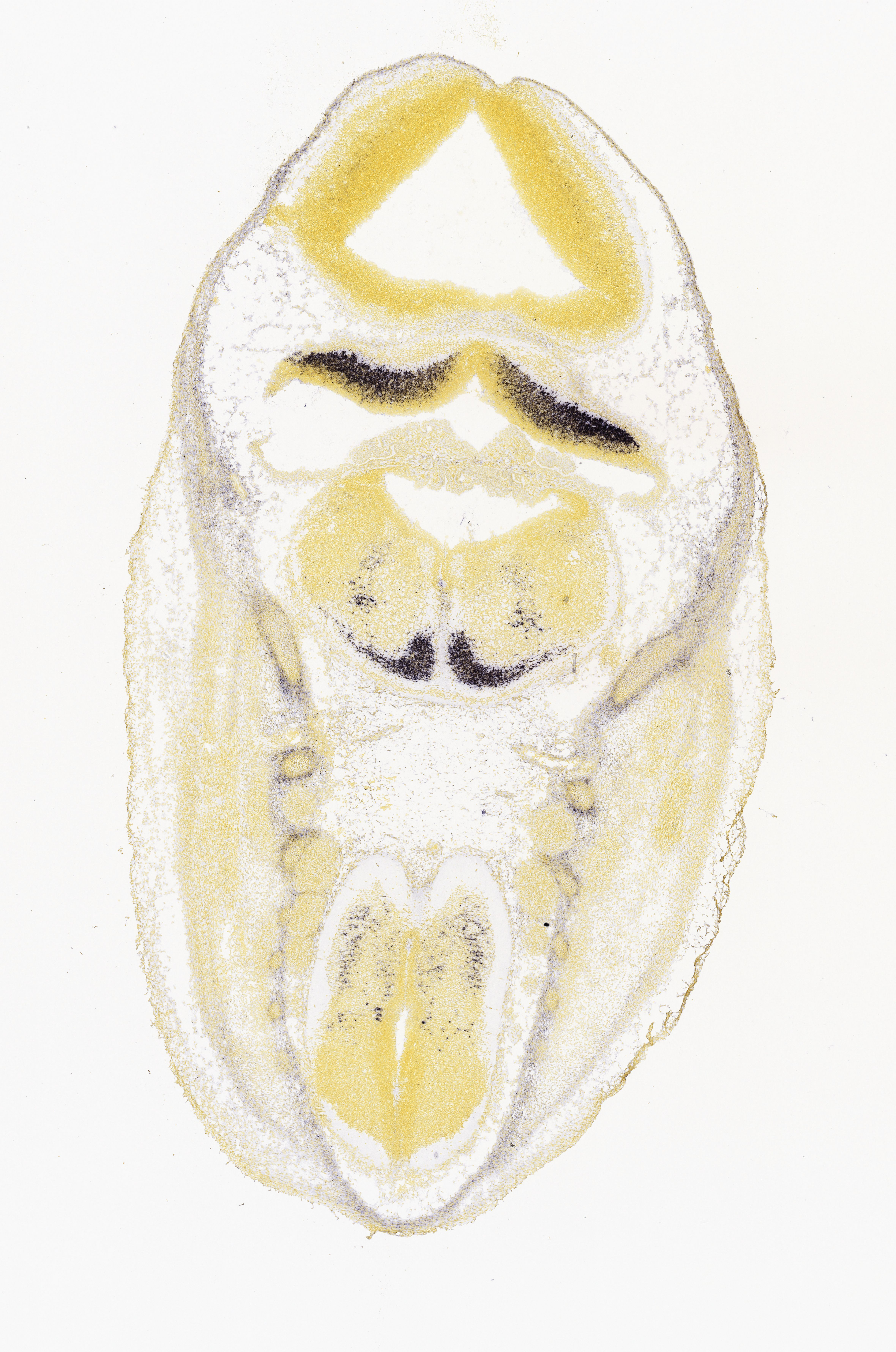 An ISH image of FoxP2 in the embryonic day 13.5 mouse showing high expression in the cerebellum and the hindbrain. Taken in the coronal plane.